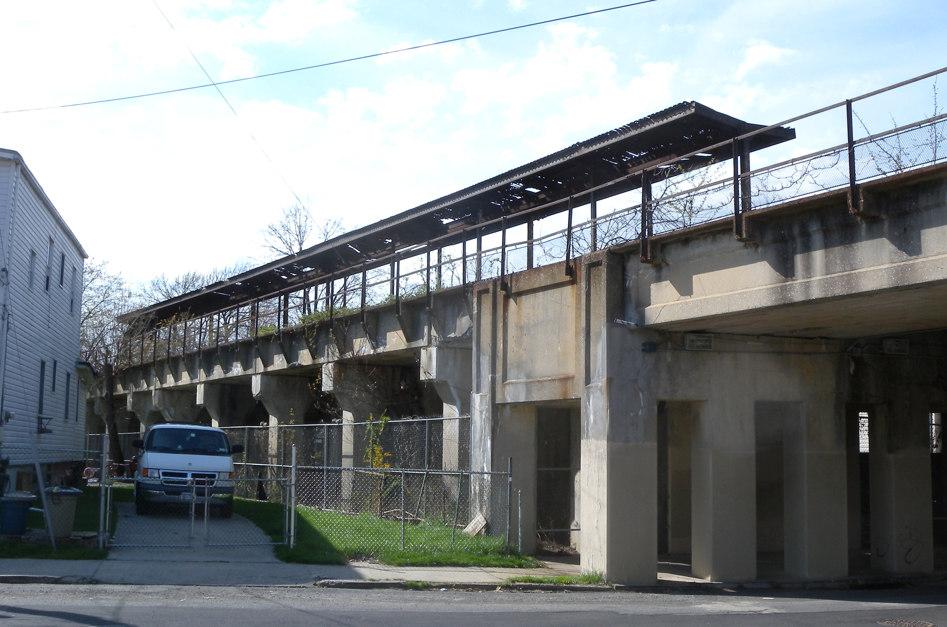 Looking northwest across Sharpe Avenue at Tower Hill station on a sunny early afternoon.